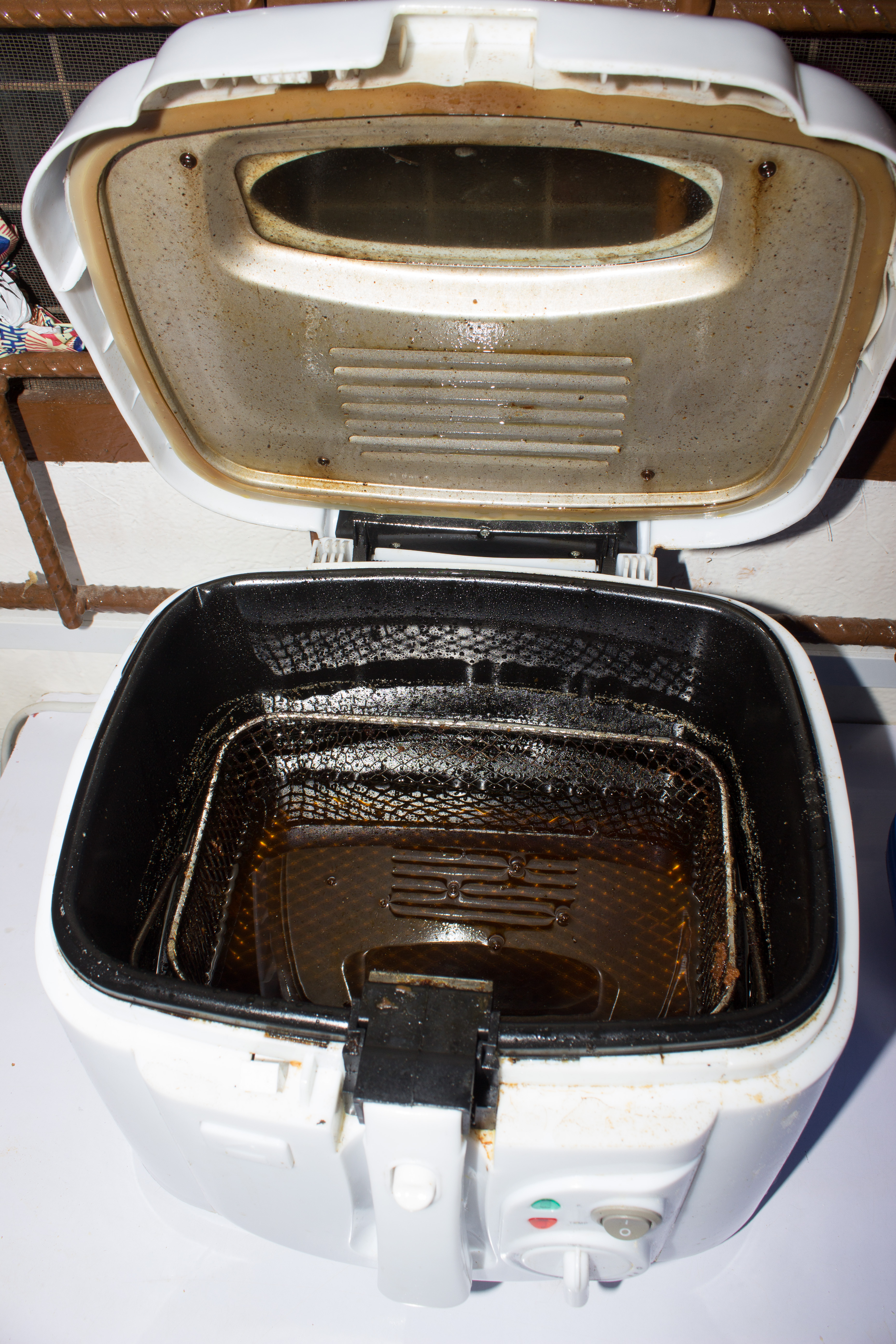 Deep fryer with oil This is an image of food from Ghana